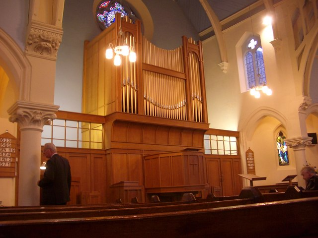 The organ in St. Andrew's URC Church, Nottingham. SK5640 :: The organ in St. Andrew's URC Church, Nottingham, near to Nottingham, Great Britain